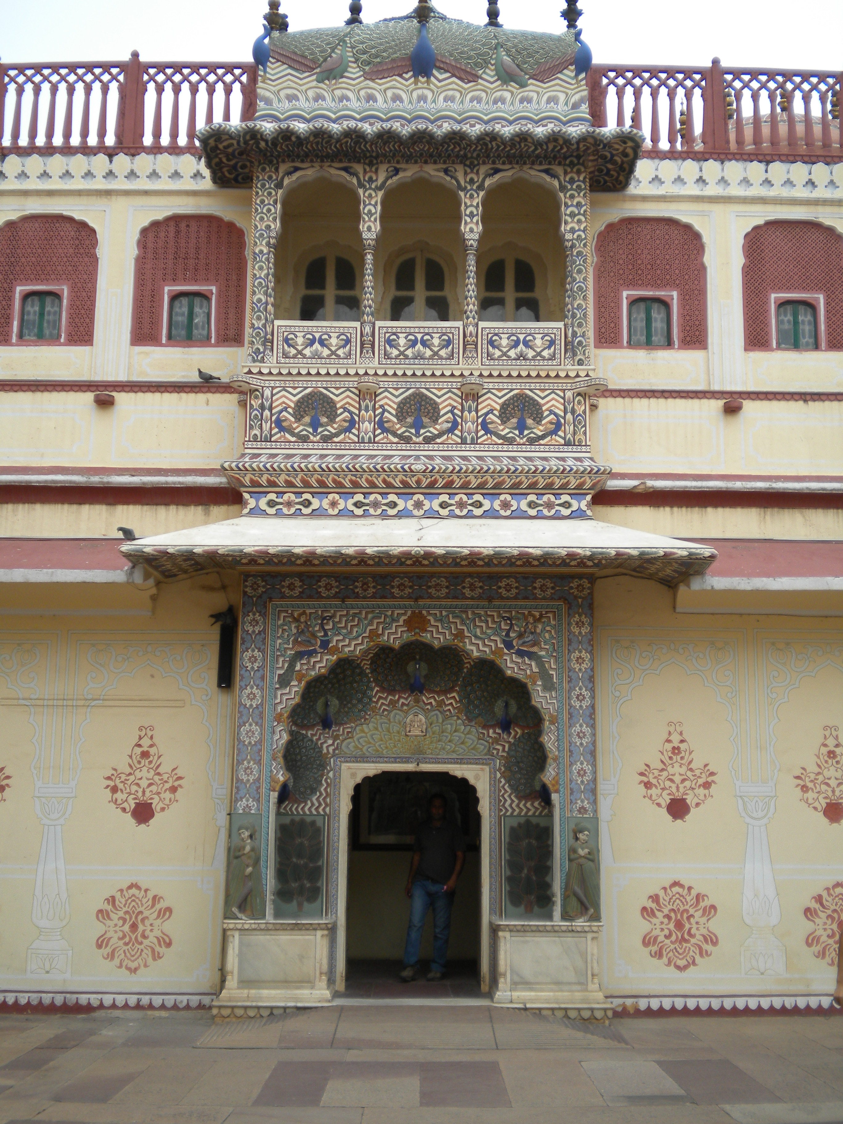 The Peacock Gate one of the four gates at Pitam Niwas Chowk of City Palace, Jaipur. The four gates in this courtyard represent four seasons. This gate (Peacock Gate) represents Monsoon. ജയ്പൂർ സിറ്റി പാലസിലെ പീതം നിവാസ് ചൗക്കിലെ നാലു കവാടങ്ങളിലൊന്നായ മയൂരകവാടം (പീക്കോക്ക് ഗേറ്റ്‌. ഇവിടത്തെ നാലു വാതിലുകൾ നാല്‌ ഋതുക്കളെ പ്രതിനിധീകരിക്കുന്നു. മഴക്കാലത്തെയാണ് പീക്കോക്ക് ഗേറ്റ് പ്രതിനിധീകരിക്കുന്നത്.